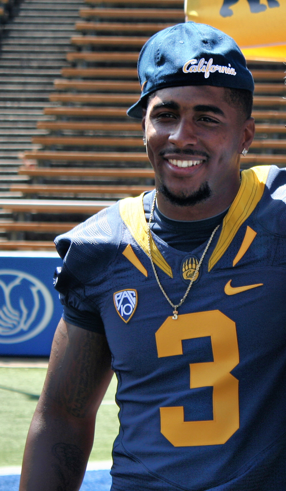 California Golden Bears wide receiver, Jeremy Ross